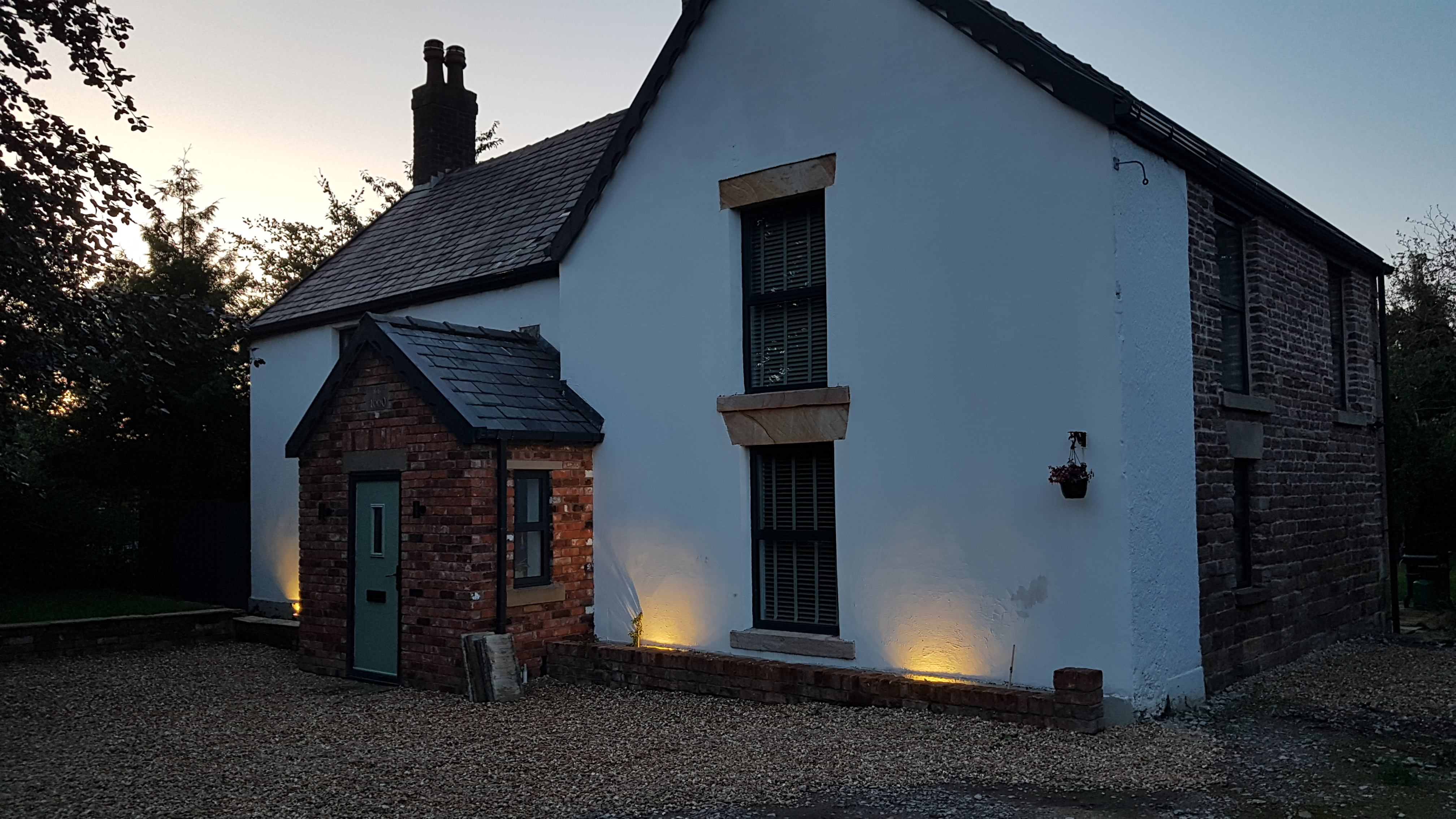 Balshaw House Farm